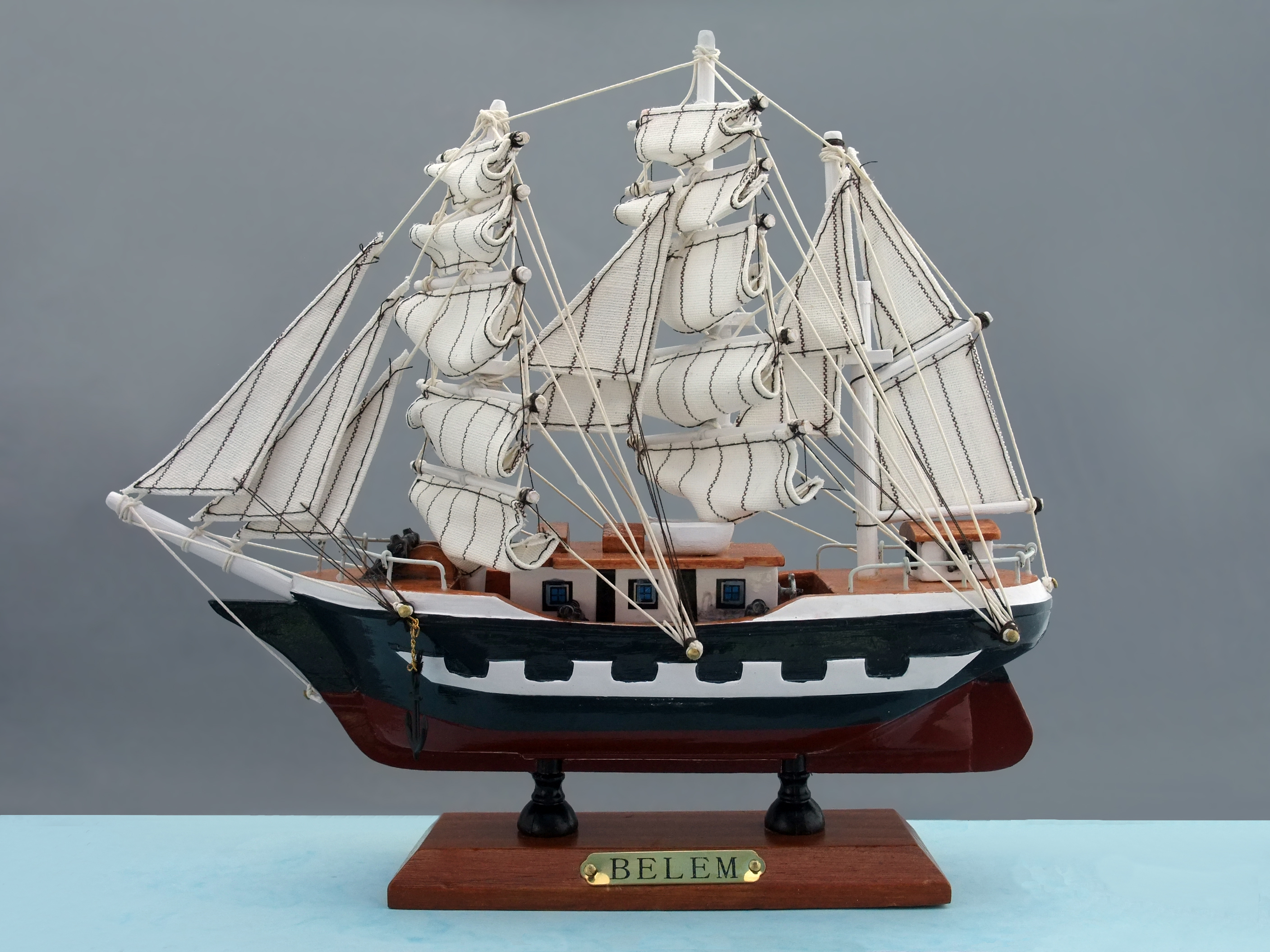 Ship model